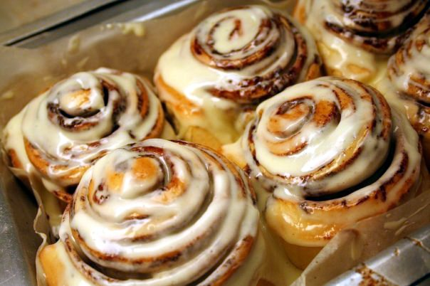 Cinnabon Classic Rolls inside a backing pan.